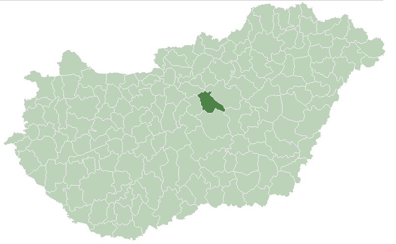 Location of subregion Nagykáta, Hungary